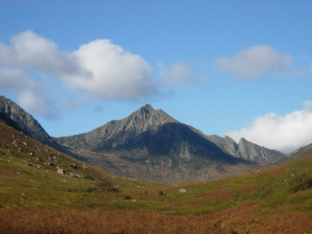 Cir Mhor from Glen Rosa. The triangular summit of Cir Mhor dominates Glen Rosa when viewed from the south